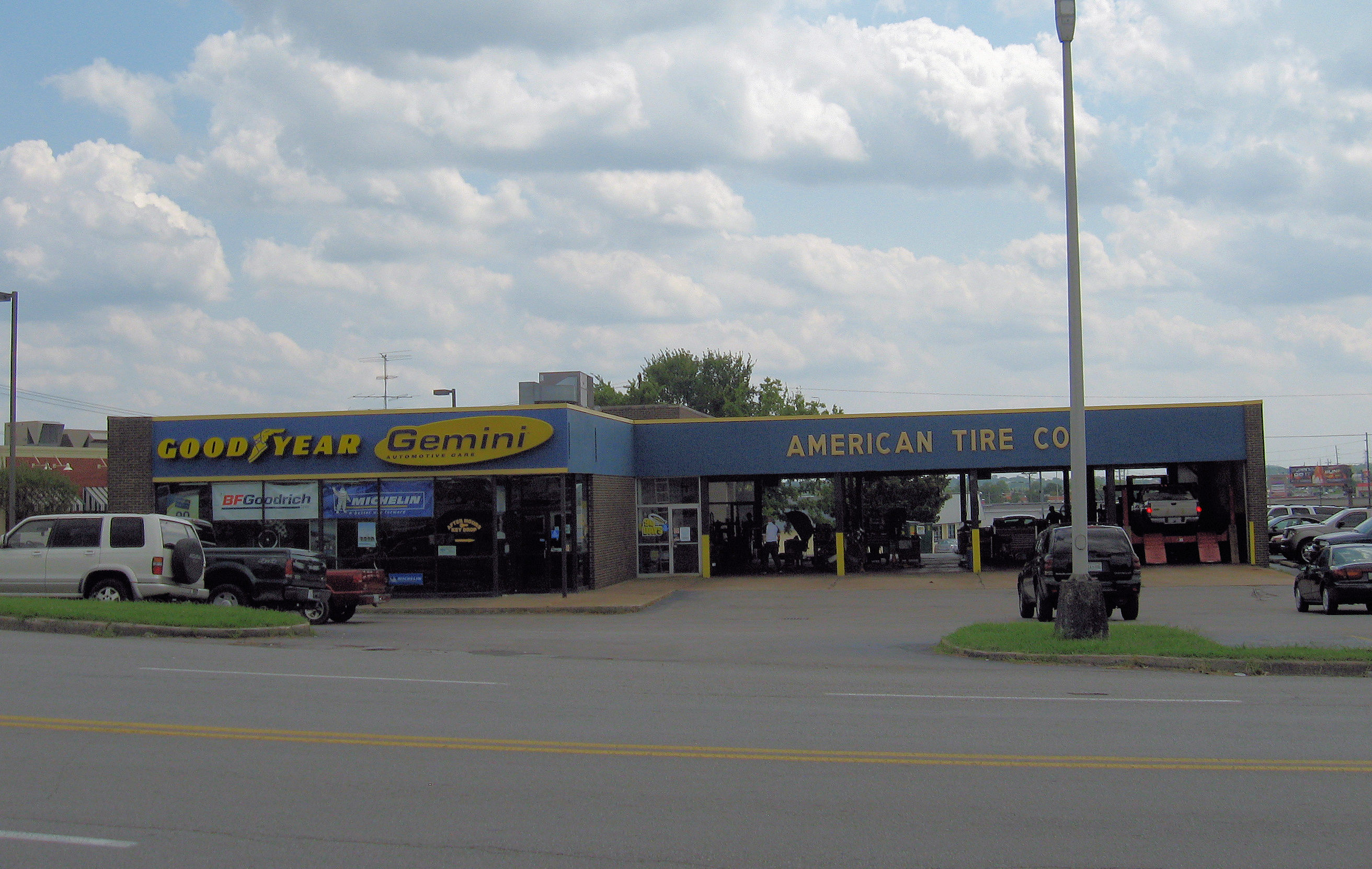 Goodyear Tire Company (Goodlettsville, Tennessee, USA)